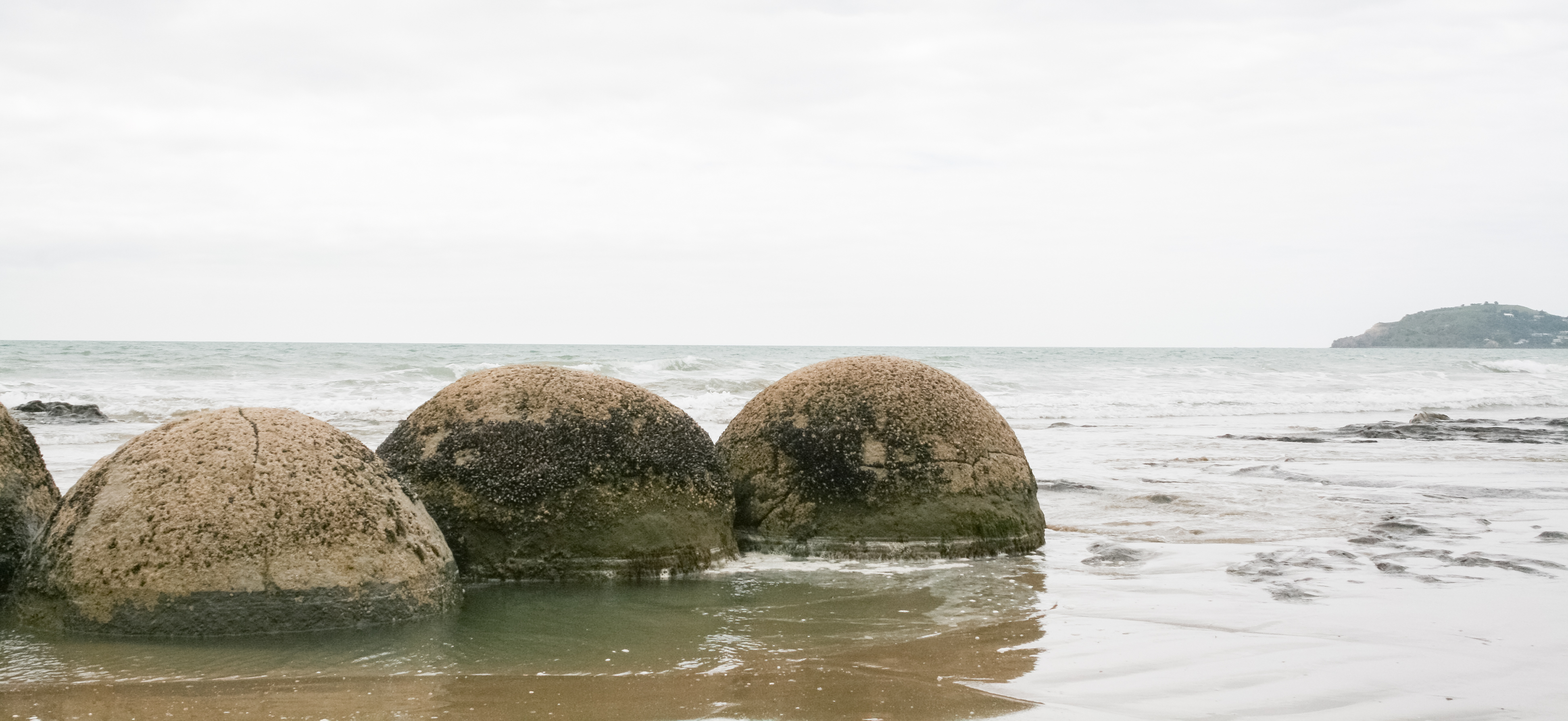 Moeraki Boulders, New Zealand